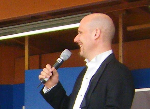 The Swedish artist Fredrik Willstrand